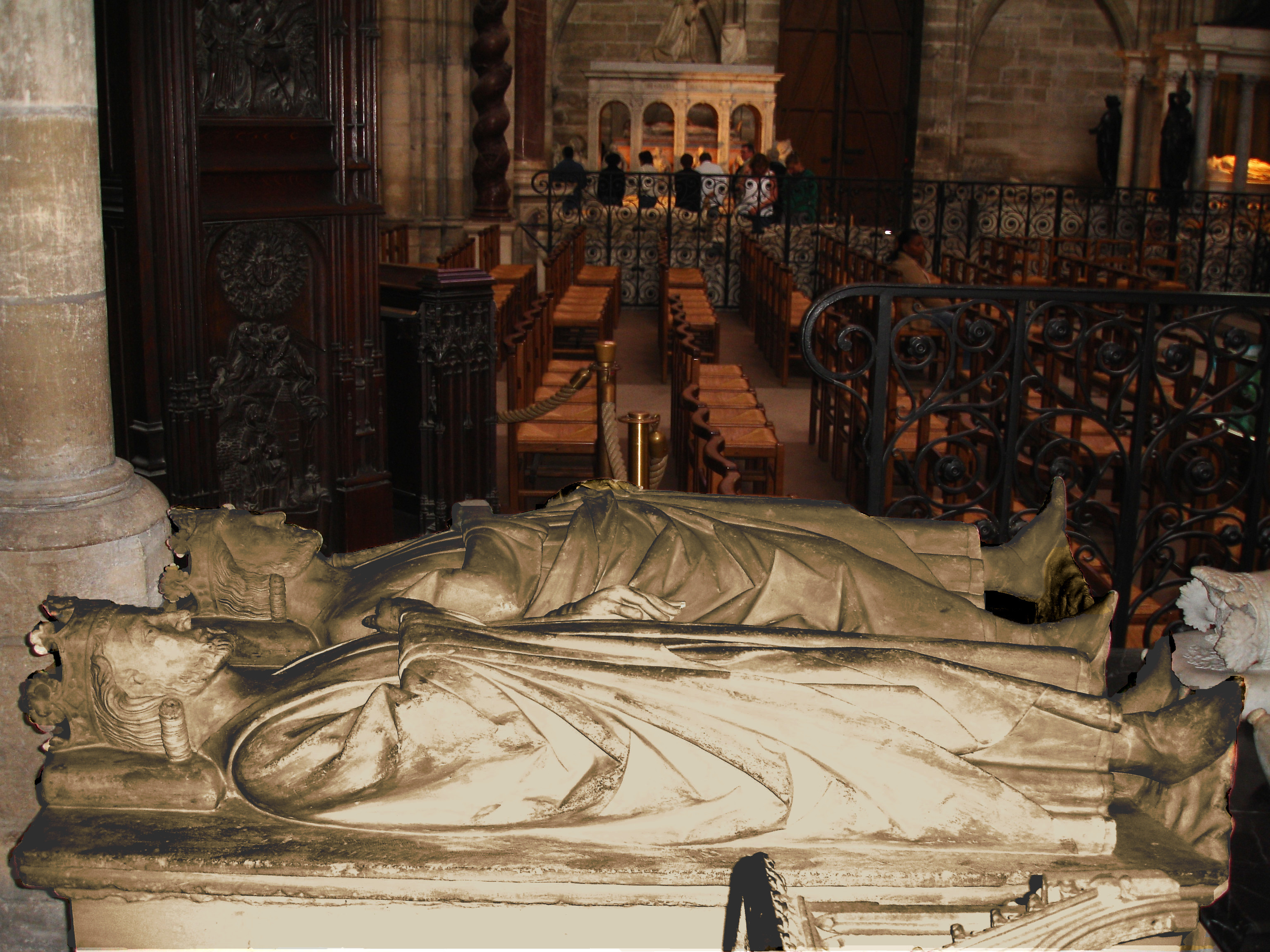 Tomb of Clovis II (foreground) and Charles Martel in Basilique Saint-Denis.